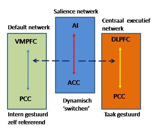 brain network interactions